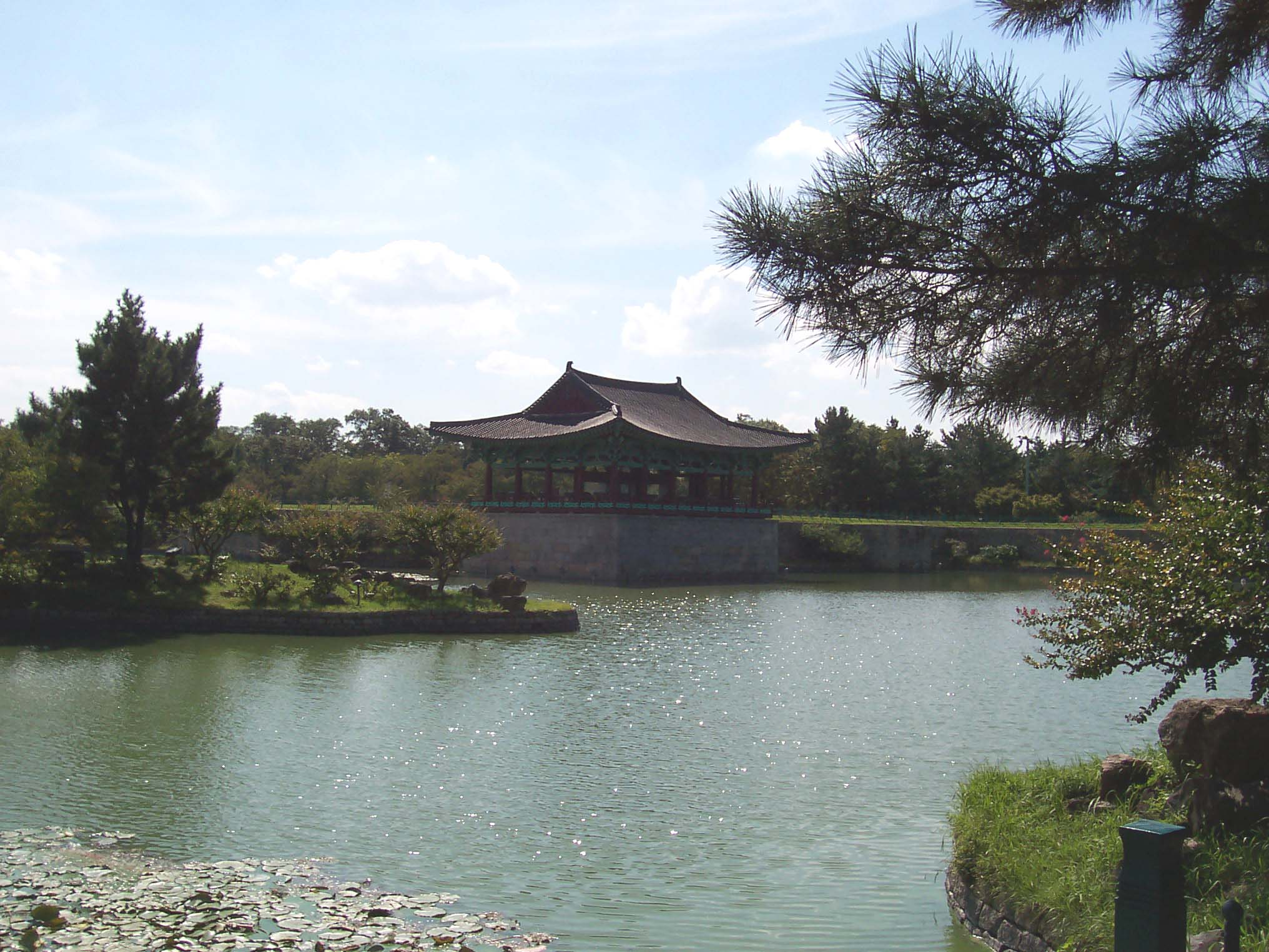 Anapji, S Korea